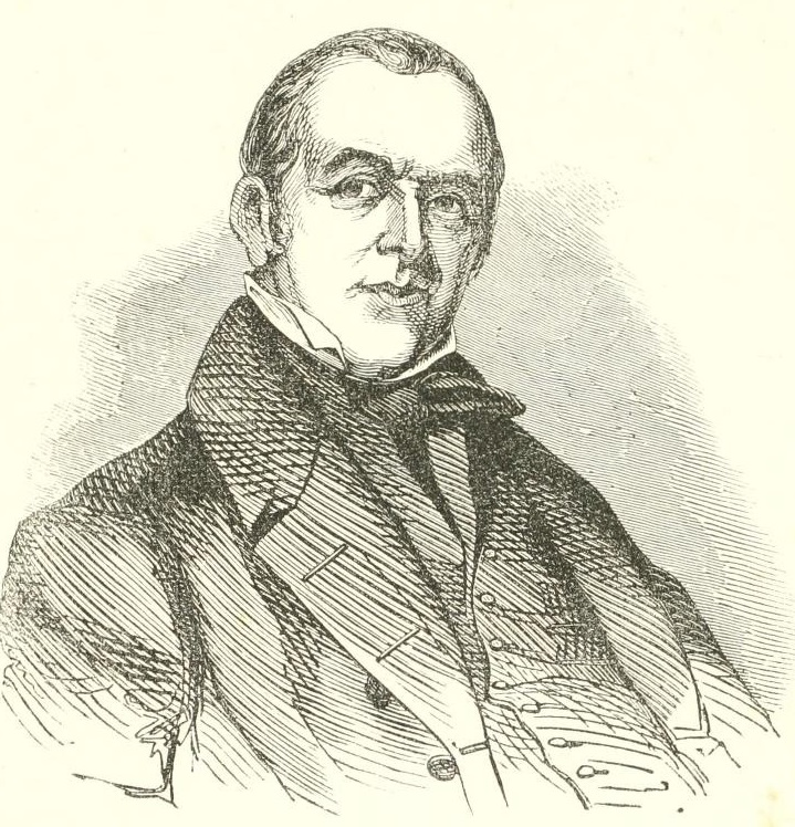 Jesse Buel, New York publisher, political figure and agricultural innovator.